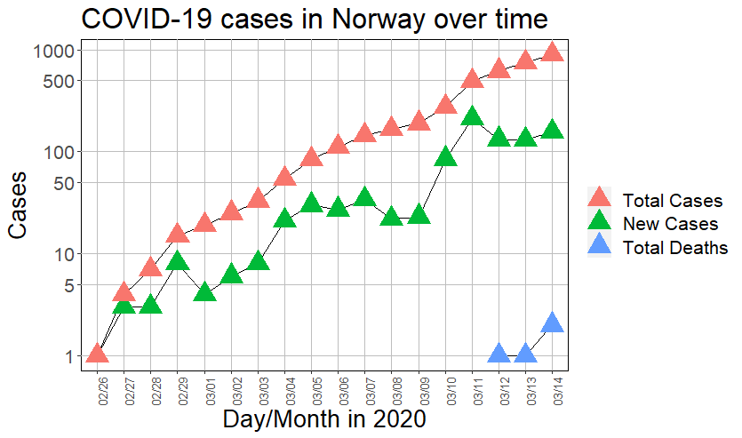 Semi-log plot of COVID-19 total cases, new cases and total deaths per-day in Norway.